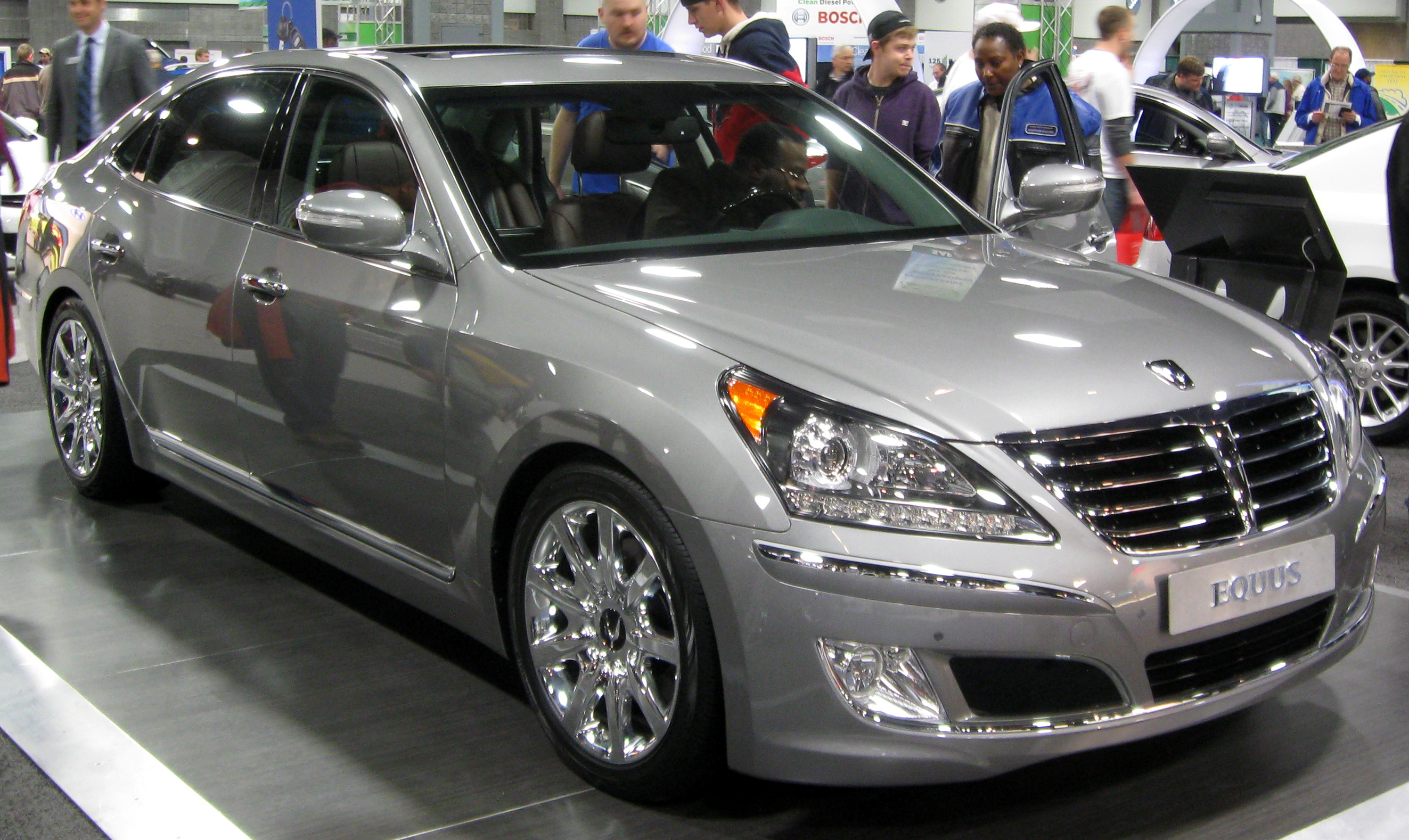 2011 Hyundai Equus photographed at the 2011 Washington (D.C.) Auto Show.